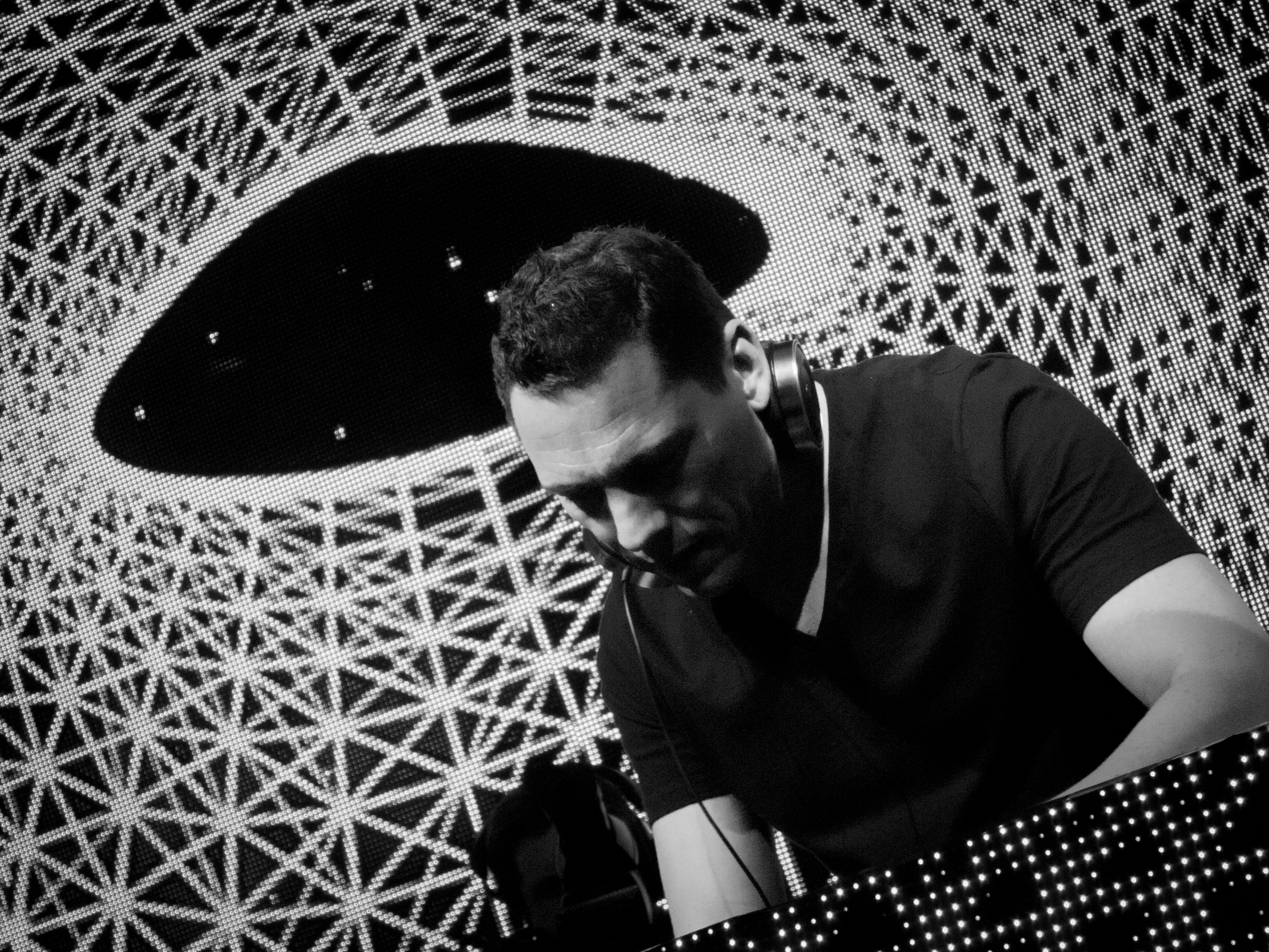 Tiesto performing at CES 2012